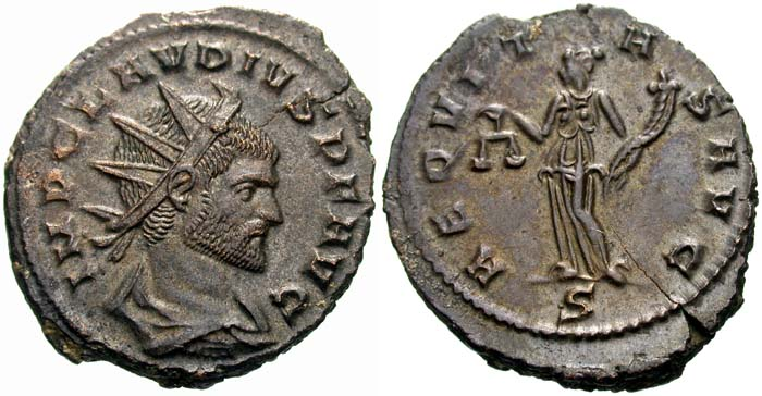 Claudius II Gothicus, AE Antoninianus (4.0 gr. 20 mm). Mediolanum mint (end of 268). IMP CLAVDIVS P F AVG, radiate draped bust right AEQUITAS AVG, Aequitas standing left holding scales and cornucopia, S in ex. RIC 137, Cohen 12.